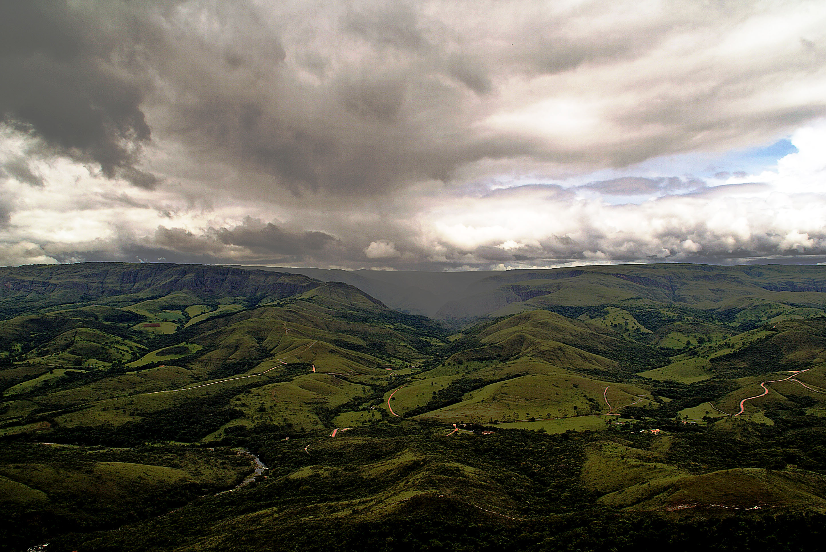 Serra da Canastra National Park (Parque Nacional da Serra da Canastra), Minas Gerais state, Brazil.